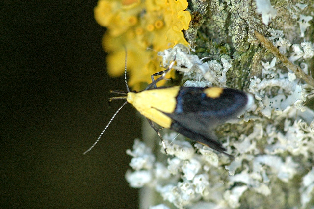 Picture taken in Commanster, Belgian High Ardennes . Species: Oecophora bractella